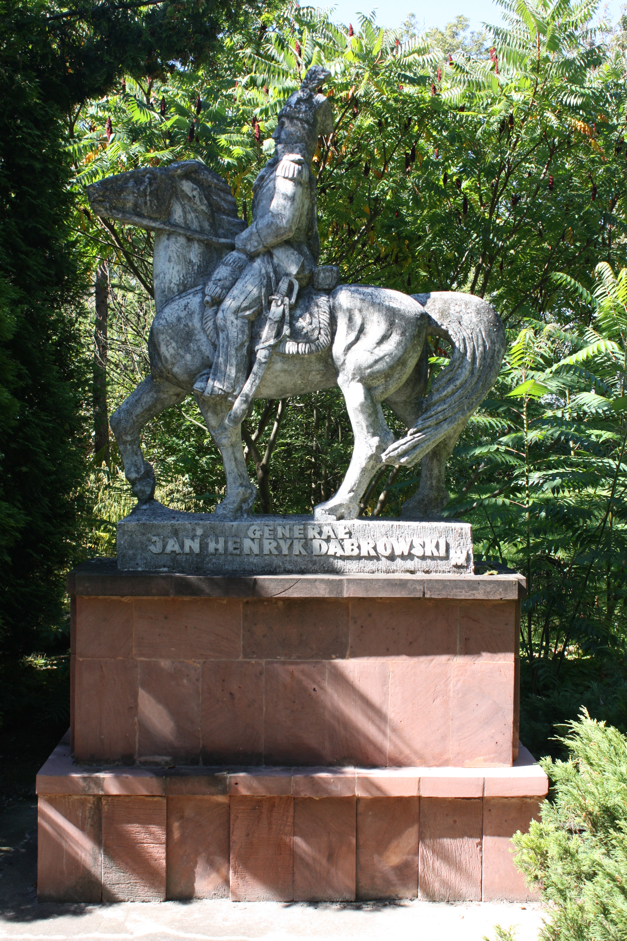 The monument of Jan Henryk Dąbrowski in Pilaszków park